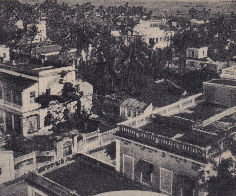 A 1954 bird's view of Karikal (now Karaikal), with rice paddies seen in the background. Karikal, one of the five original settlements of French India, was absorbed into India in 1954 (de facto) and in1956 (de jure).